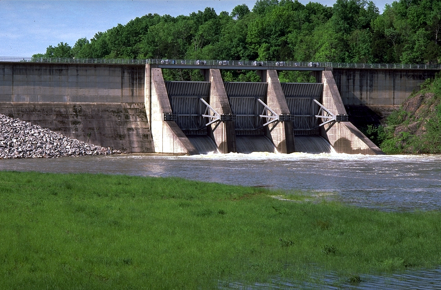 Tellico Dam